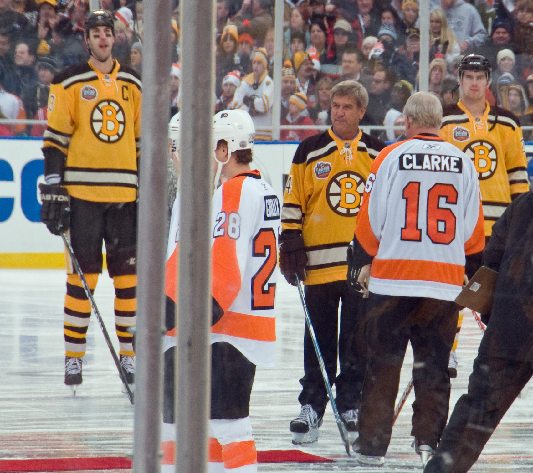 2010 NHL Winter Classic pre-game Bobby Orr and Bobby Clarke (right) get ready for the ceremonial puck drop. Zdeno Chara (left - Bruins) and Claude Giroux (left - 28) look on